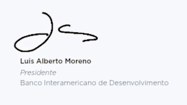 Luis Alberto Moreno IDB presiden signature.